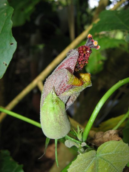 Flower of Hibiscadelphus giffardianus, showing the unusual "unopened" petals. Kīpuka Puaulu, Hawaii Volcanoes National Park. Photo by Karl Magnacca.